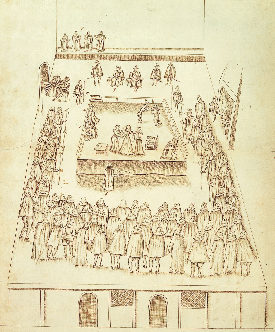 The exection of Mary Queen of Scots at Fotheringhay Castle on 8 February 1587, drawn by Robert Beale (1541-1601),Clerk of the Privy Council to Queen Elizabeth I, who wrote the official record of the execution of Mary, Queen of Scots, to which he was an eyewitness. The evening before the exection he had read-out to Mary, Queen of Scots her death warrant and informed her that she was to be executed the following morning. Key to numbers: George Talbot, 6th Earl of Shrewsbury and Henry Grey, 6th Earl of Kent are seated to the left (1 & 2) and Sir Amias Paulet, one of Mary’s guards, is seated behind the scaffold (3).